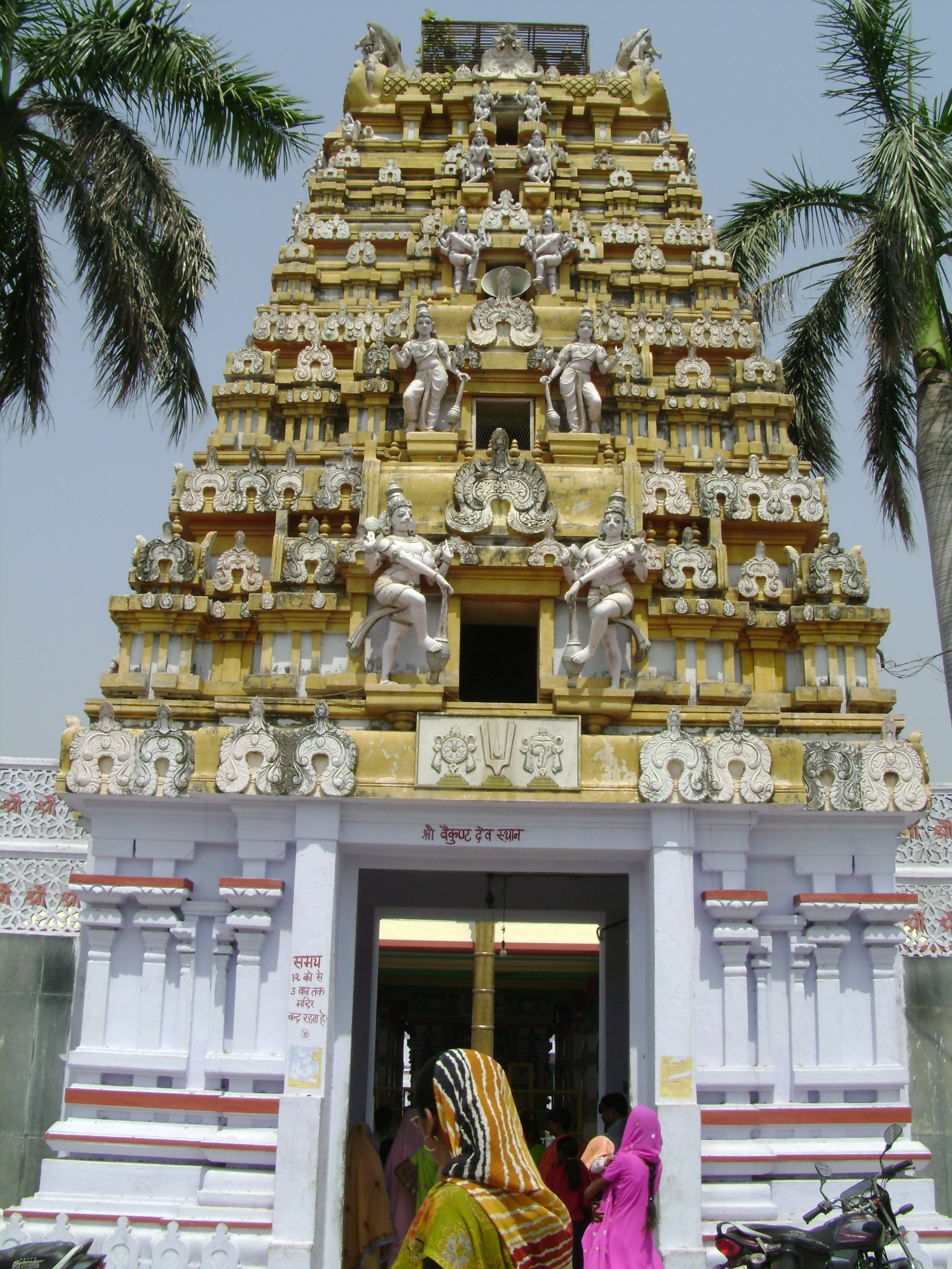 Naulakha Mandir (temple) at Buxar